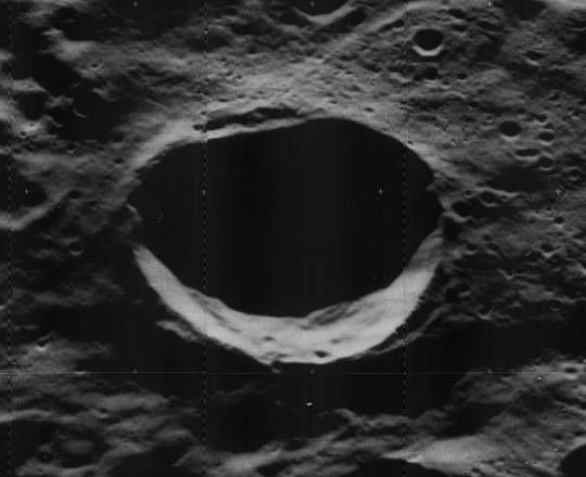 Oblique view of Pease, on the far side of the moon, facing west.